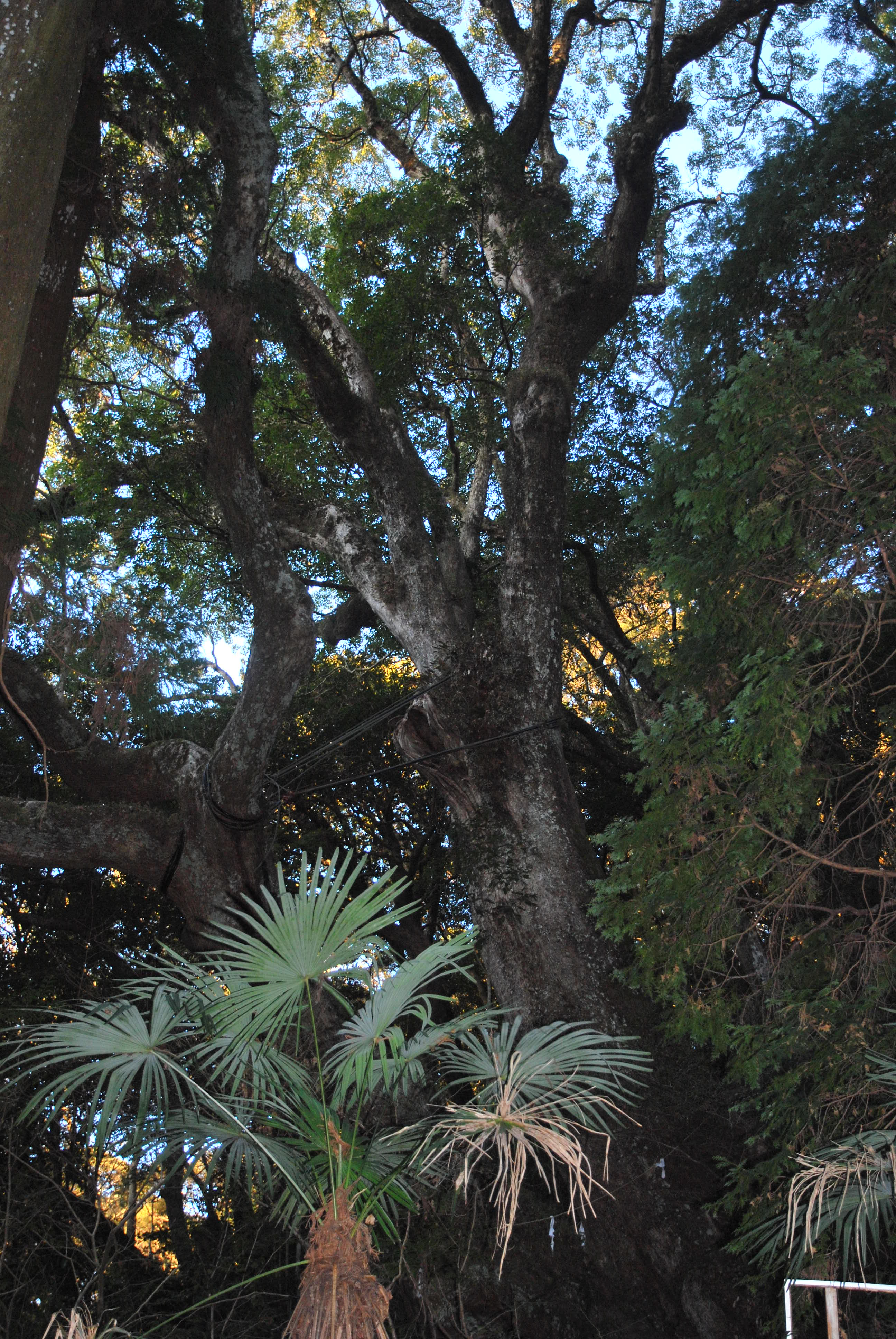 Great Camphor tree, Kounomine jinja